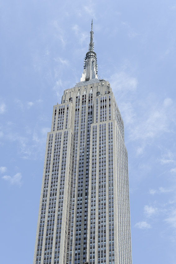 New York City 2012